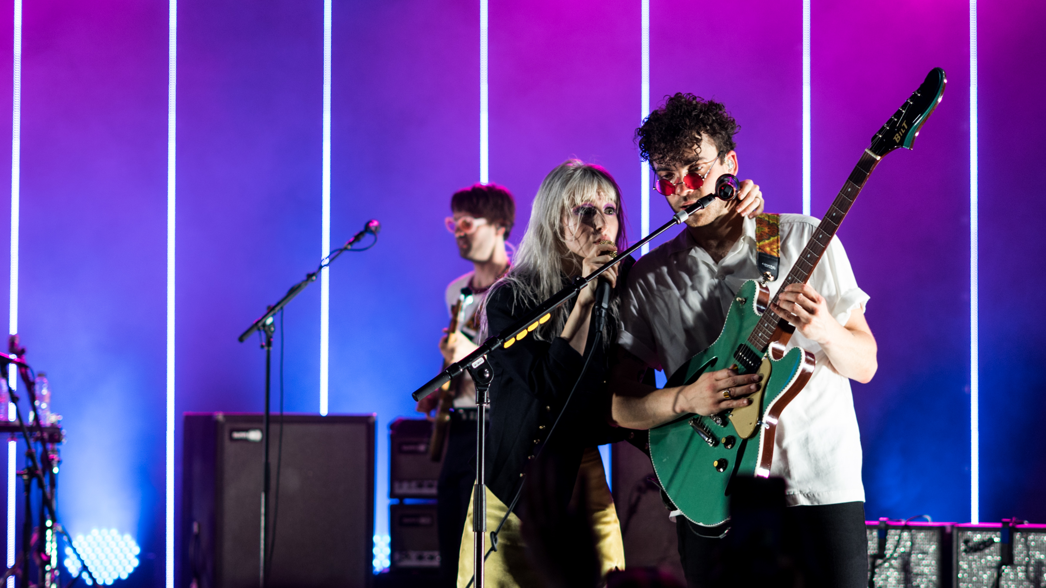 Paramore live concert at Royal Albert Hall, London, UK.